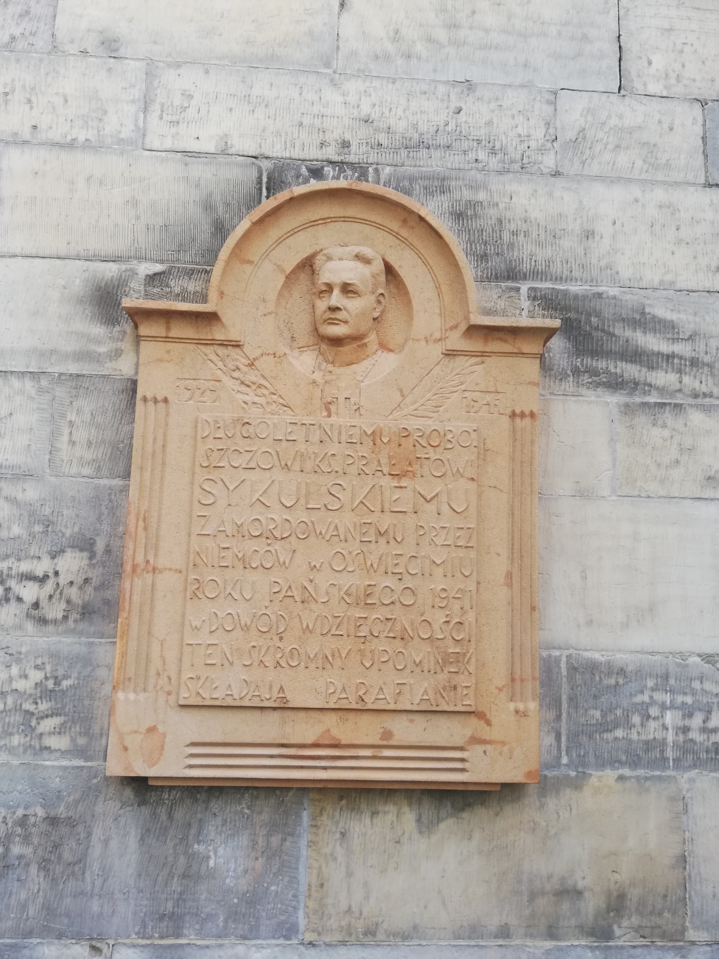 Commemorative plaque of pr. Kazimierz Sykulski, placed on the front wall of the Church of Saint Nicholas in Końskie. The inscription says: "To the longtime parish priest, prelate priest Sykulski, murdered by Germans in Auschwitz concentration camp in the year of our Lord 1941, in gratitude, this modest plaque is given by parishioners."